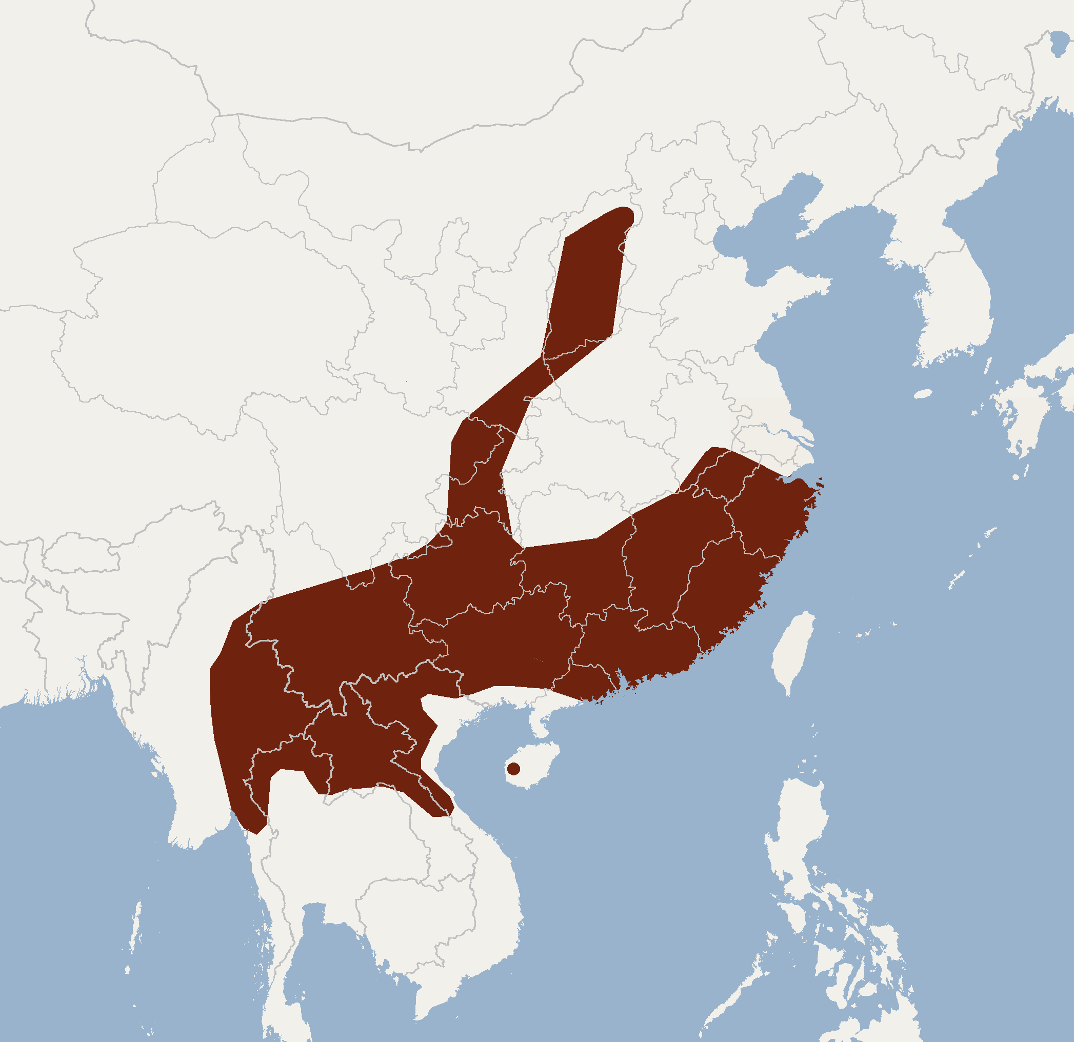 According to Smith & Xie, 2008